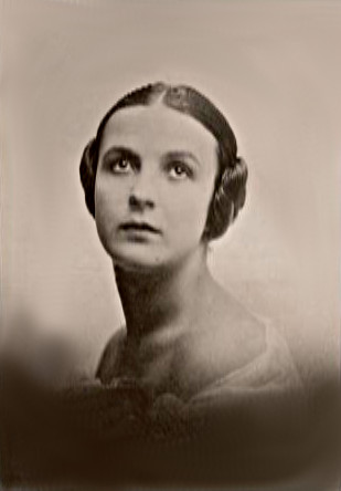 Portrait of the French actress Elmire Vautier, early 1920.